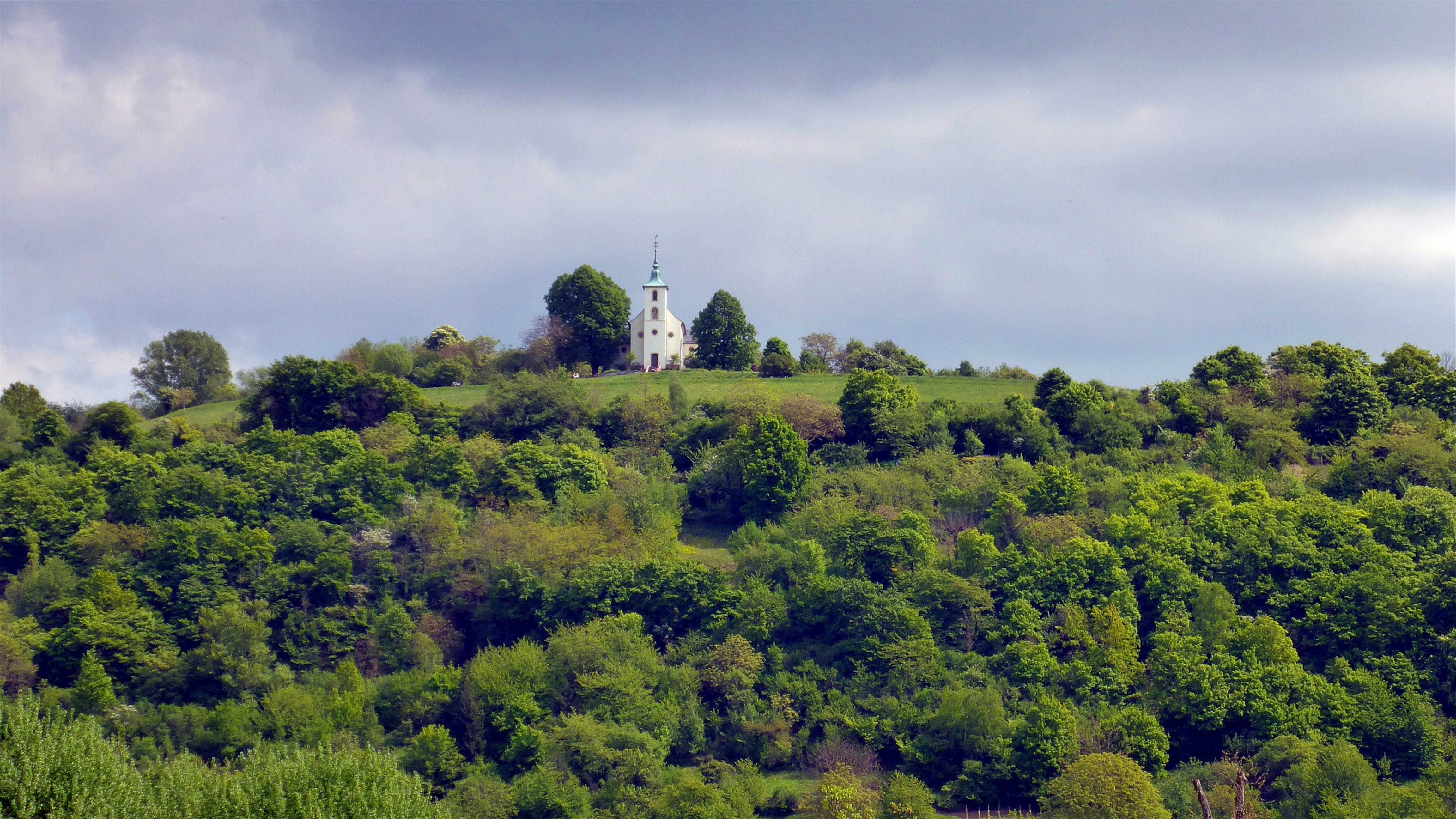 Naturschutzgebiet „Michaelsberg und Habichtsbuckel“ is a nature reserve in Baden-Württemberg, Germany.